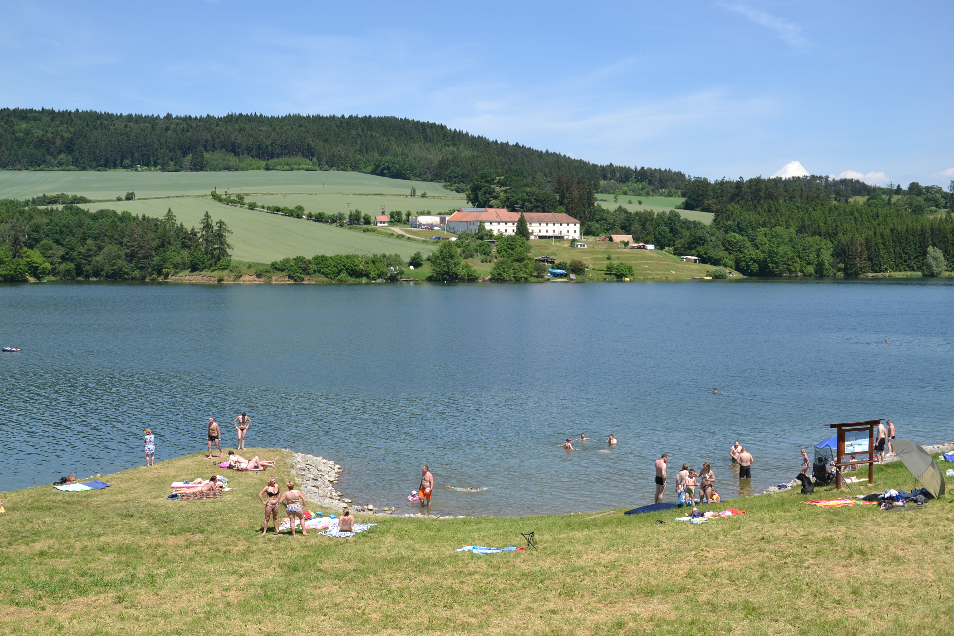 Letovice Dam, Moravia